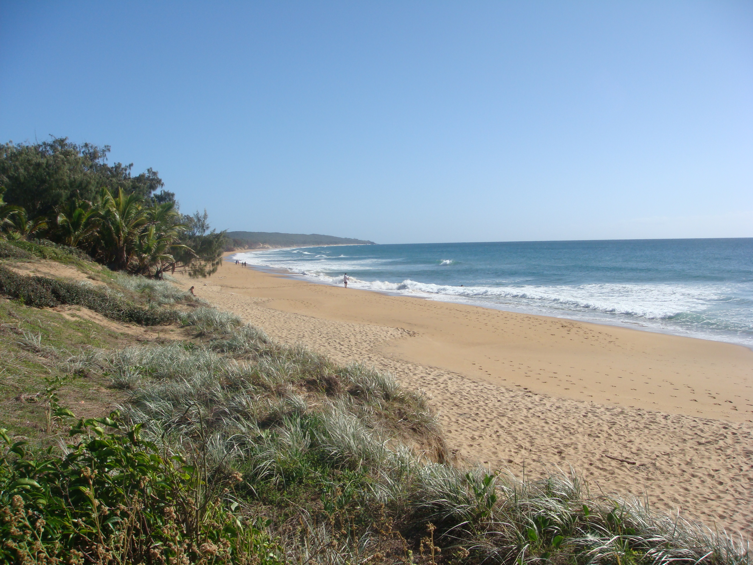 Agnes water beach. Taken by the uploader and released into the public domain. Exact date, time and location in EXIF information in header.